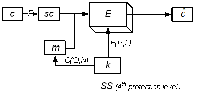 Steganography: the Fourth Protection Level Security Scheme